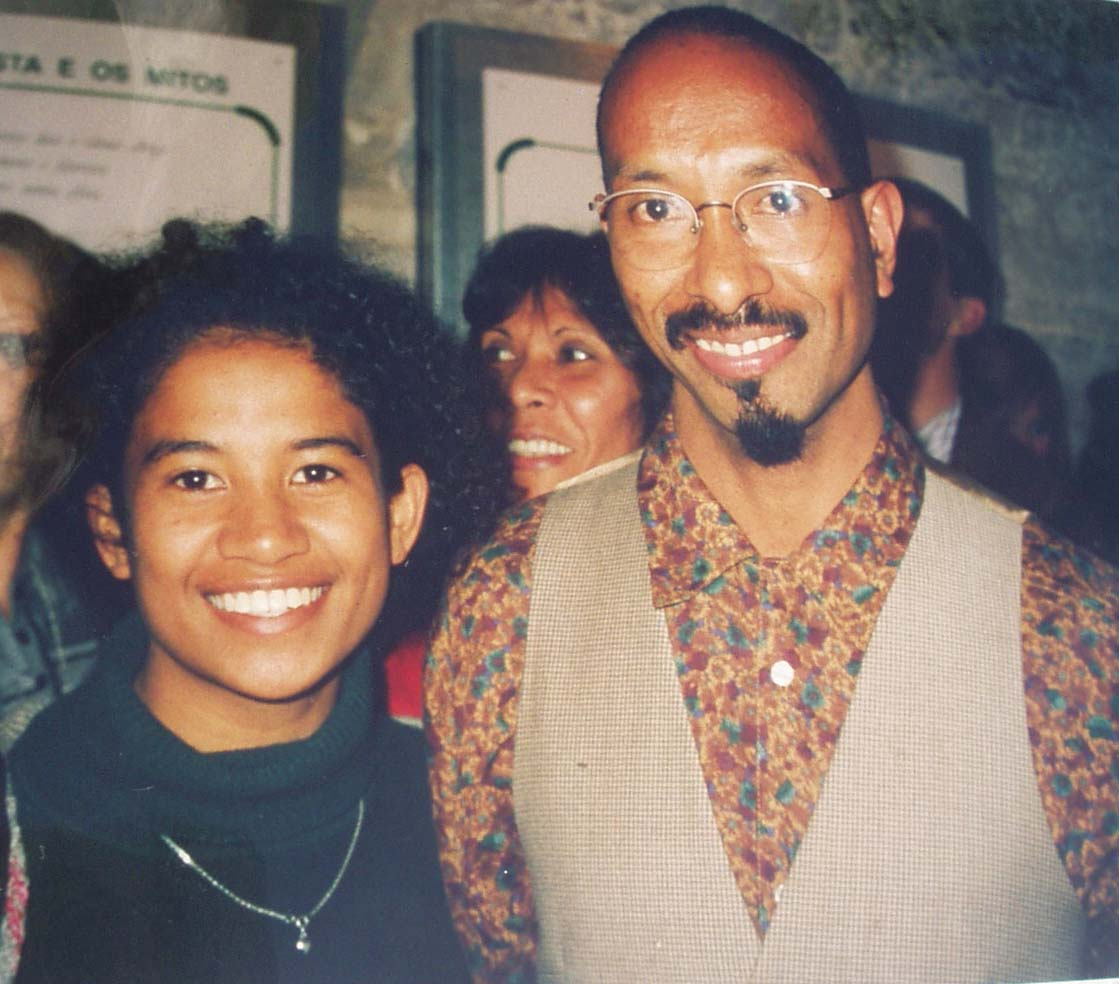 The writer Luís Cardoso, from East Timor, and a young East Timorese lady in Lisbon